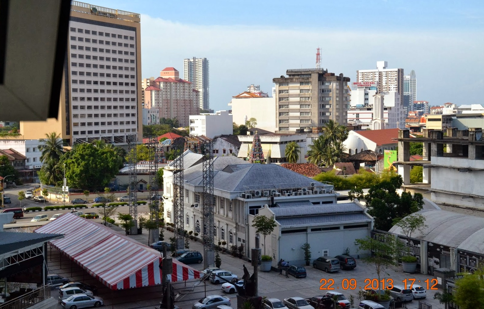 Dato Keramat Road in George Town, Penang (as viewed from Penang Times Square)